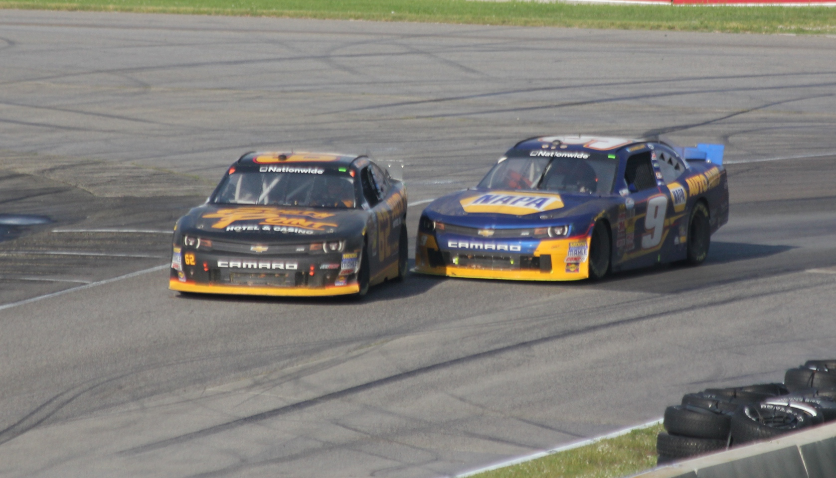 NASCAR Nationwide Series driver #62 Brendan Gaughan (left) gets somewhat sideways in turn 5 at Road America while battling #9 Chase Elliott (right) for the lead in the final two laps of the 2014 Gardner Denver 200. Gaughan won the race and Elliott finished fourth.